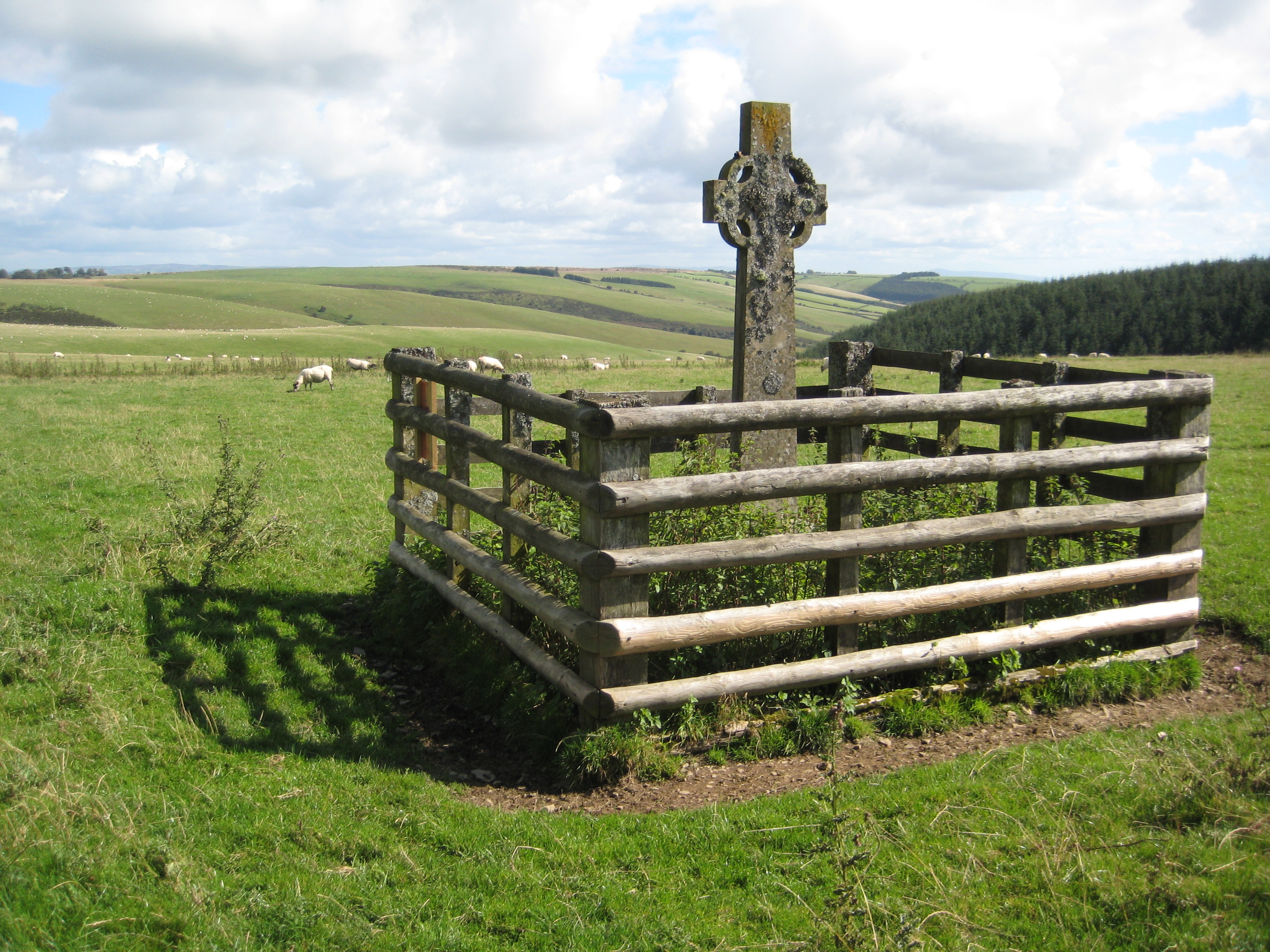 The Botfield Cross and Cantlin Stone, Kerry Ridgeway